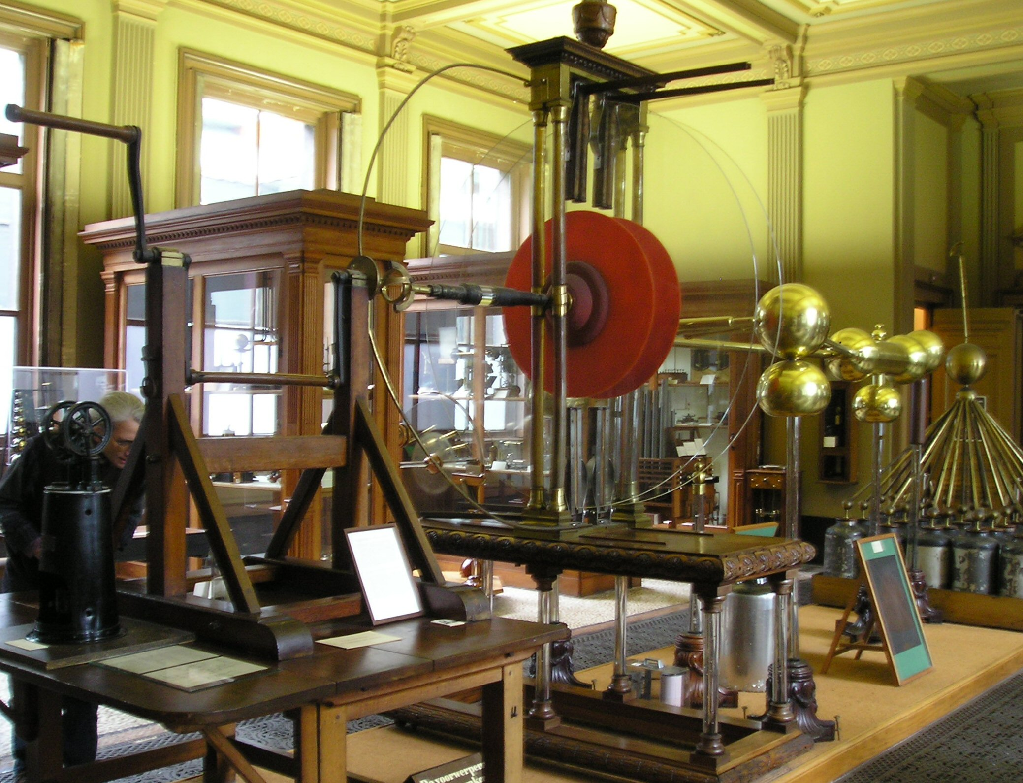 Worlds largest Electrostatic generator at Teylers Museum (Haarlem, The Netherlands))